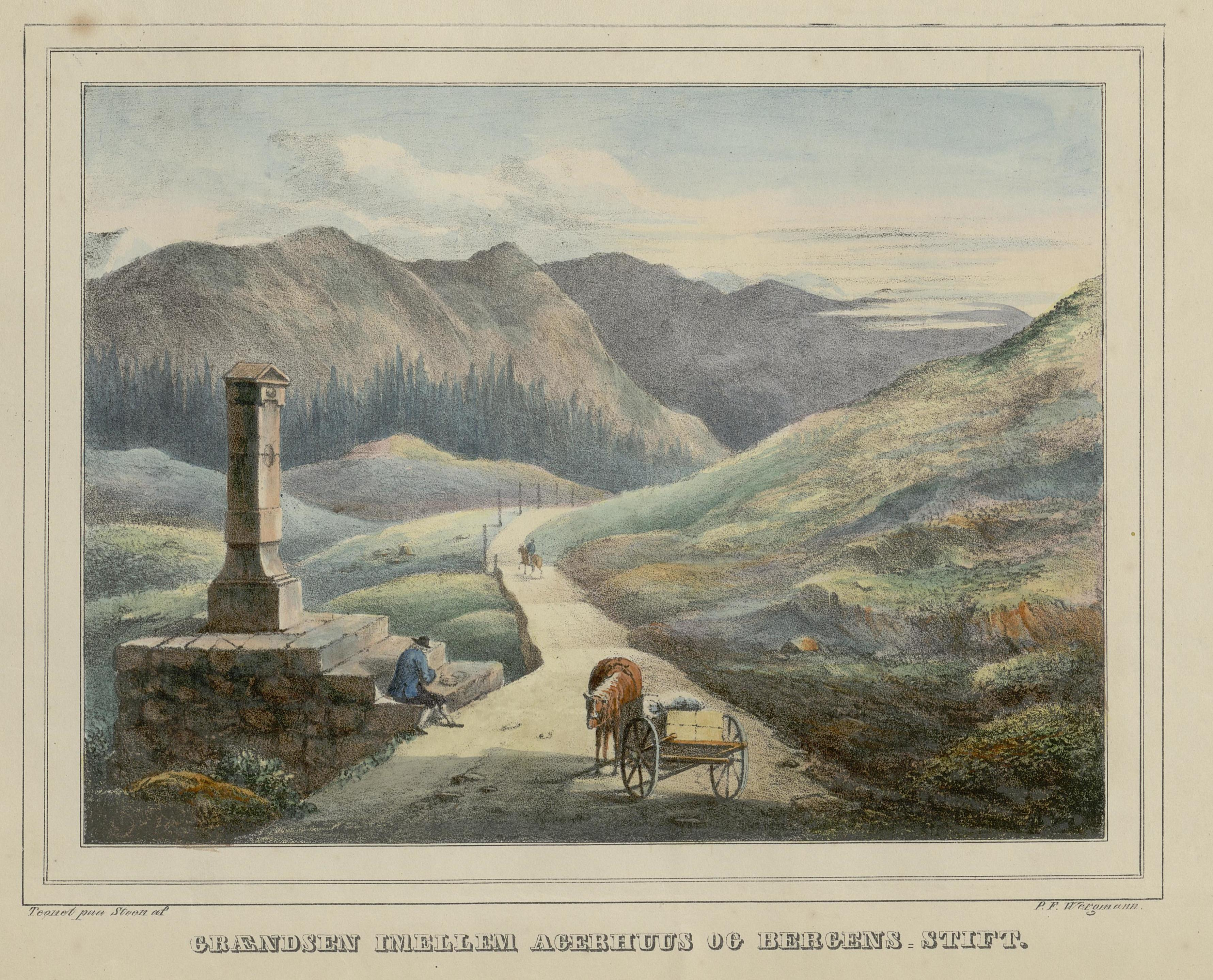 Illustration from the book "Norsk Prospect-Samling" by Wergmann, P.F. and published by P.F. Wergmann (no, 1833-1836)